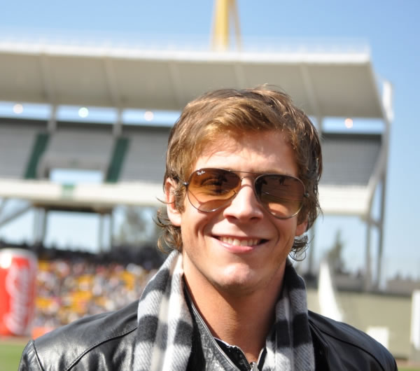 Gastón Dalmau from Teen Angels at a concert in Cordoba, Argentina.